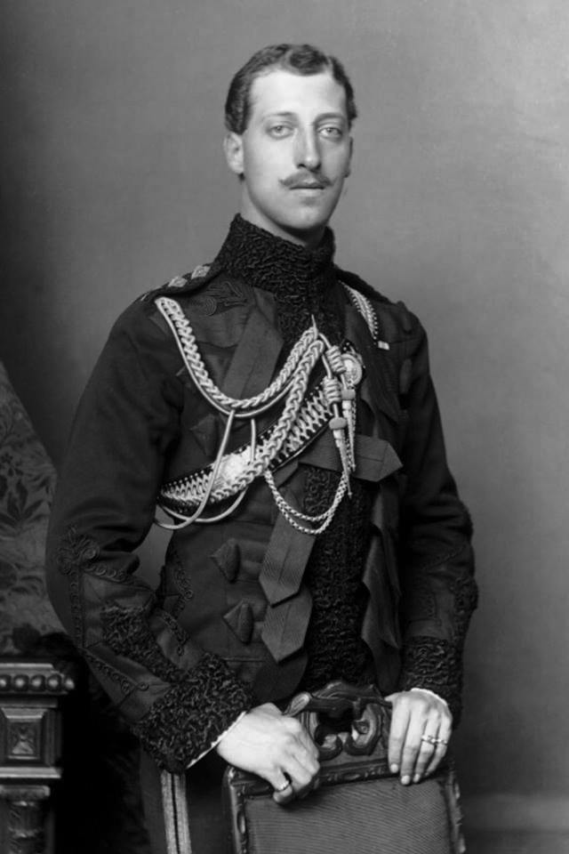 Prince Albert Victor, Duke of Clarence and Avondale